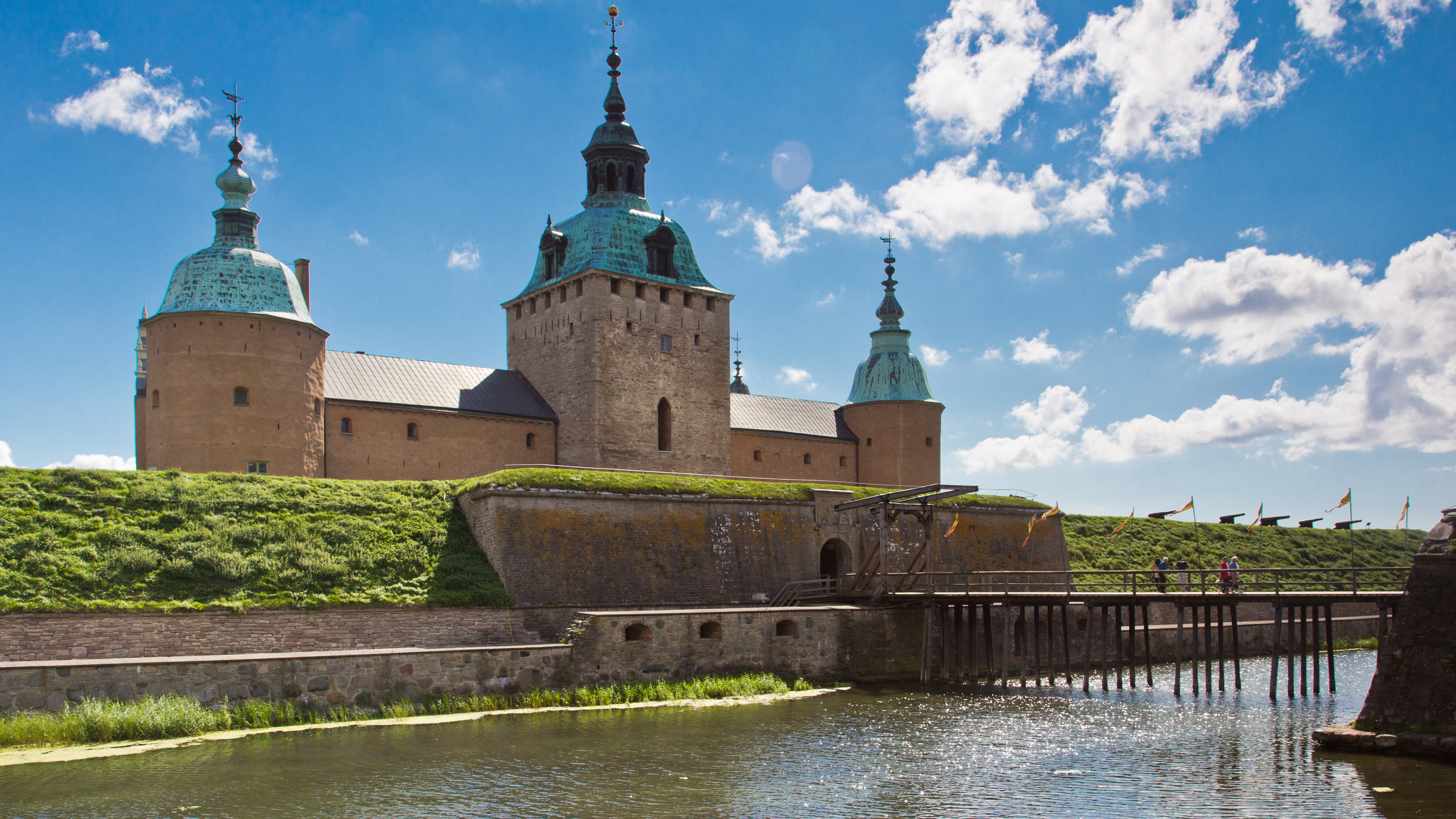 Kalmar Castle in August 2011, Sweden